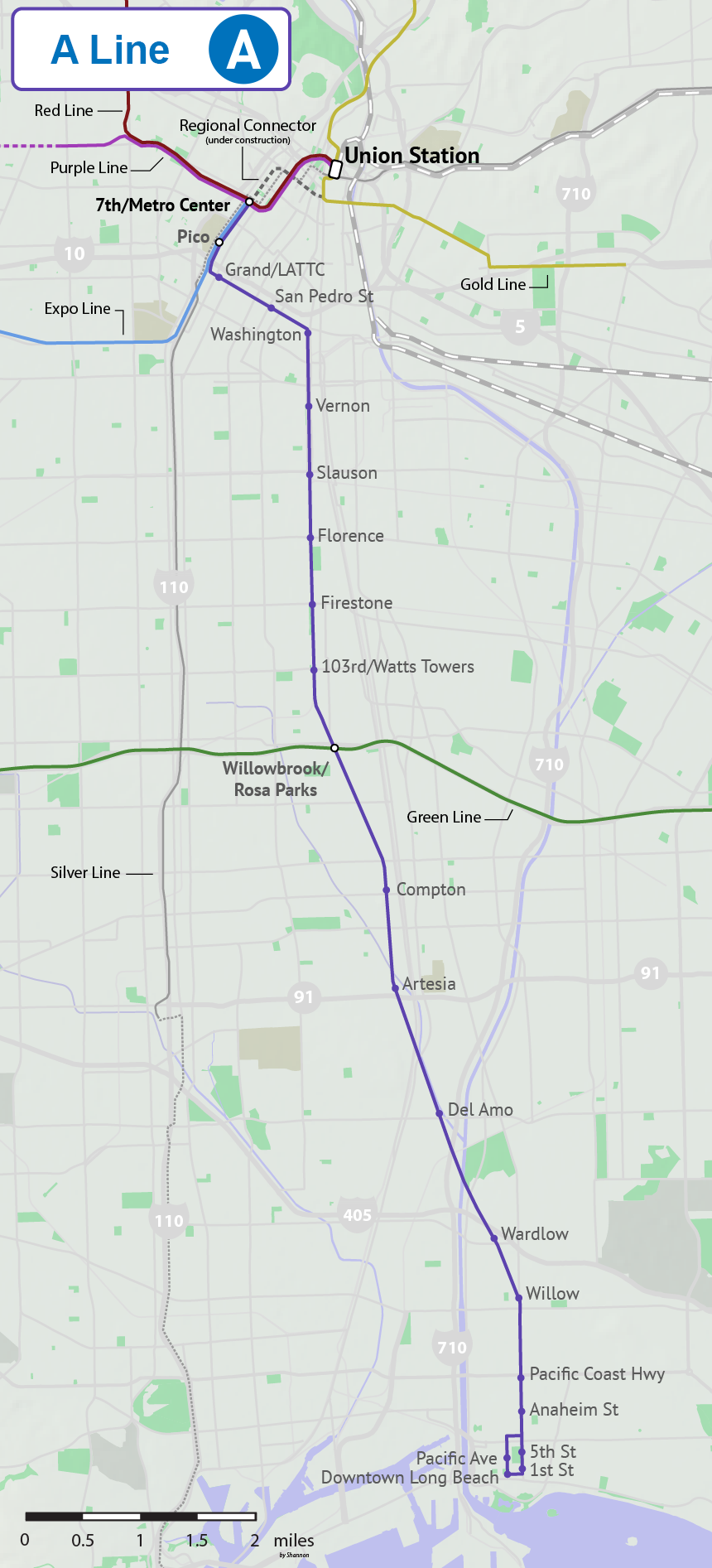 A geographically accurate map of the Blue Line in Los Angeles County, including the planned extension to Union Station via Regional Connector. Dashed lines indicate under construction or planned Metro routes. Gray checkered lines indicate Metrolink routes.